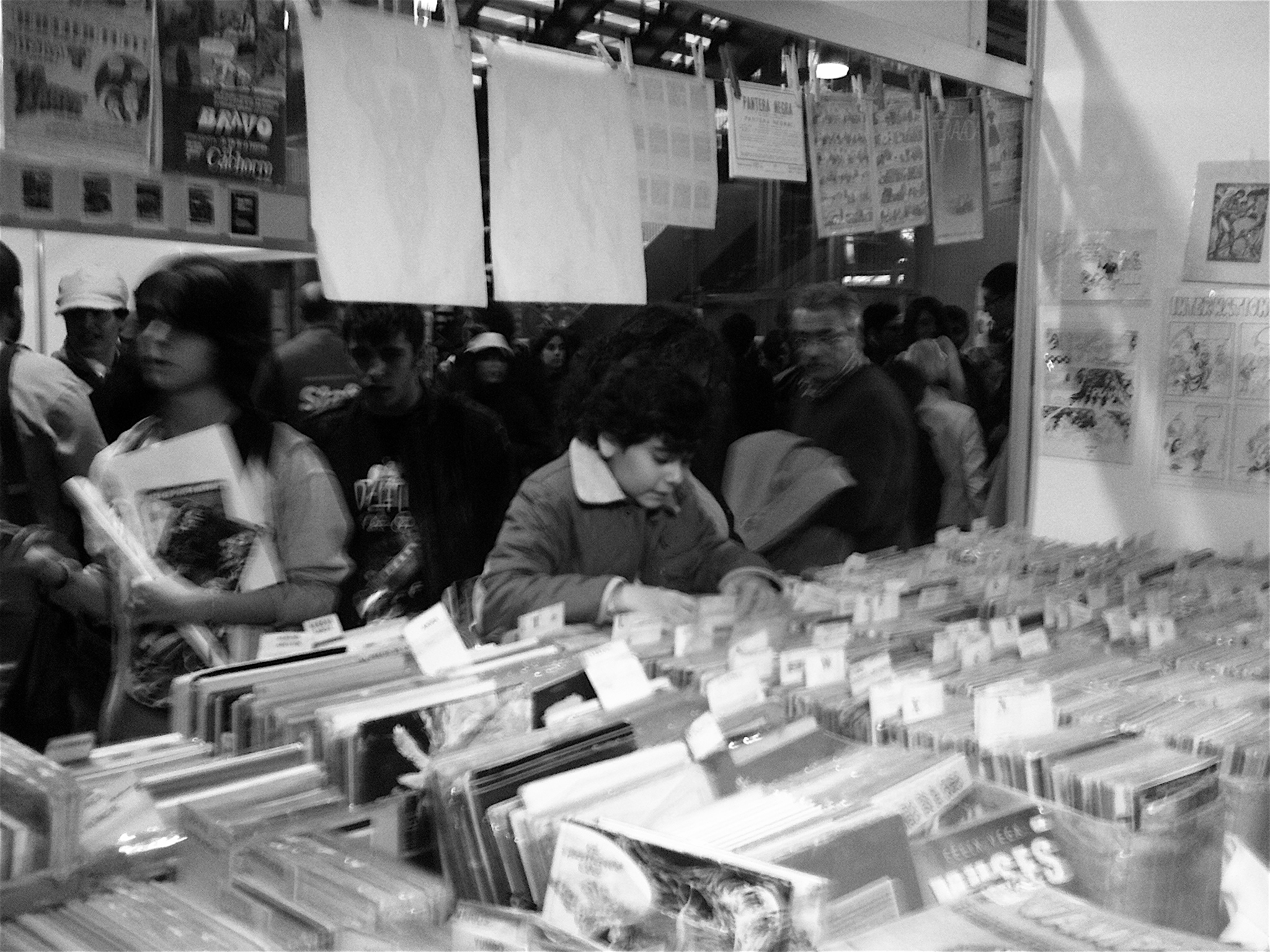 BUSCA COMICS